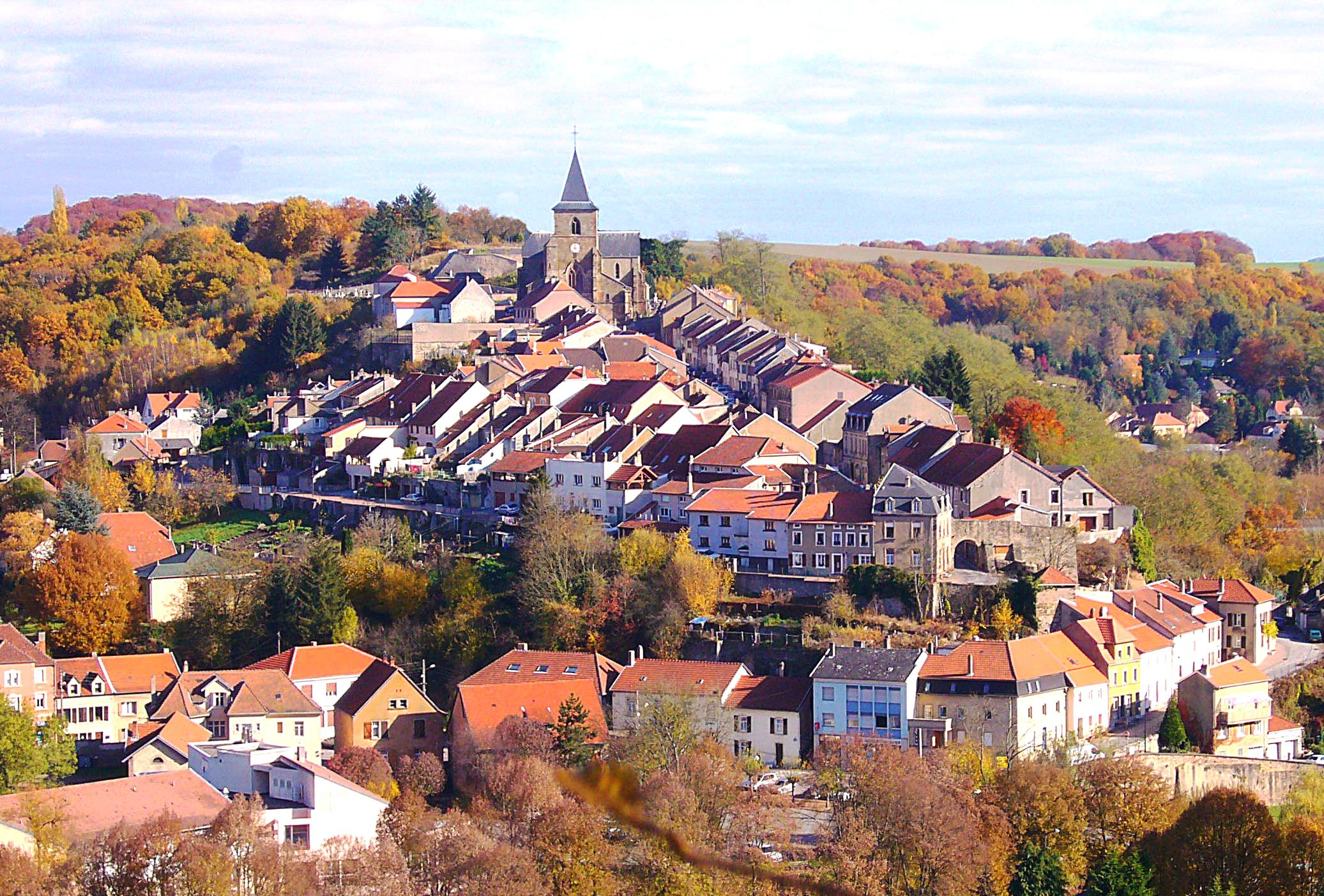 The medieval site of "Vieux-Hombourg"